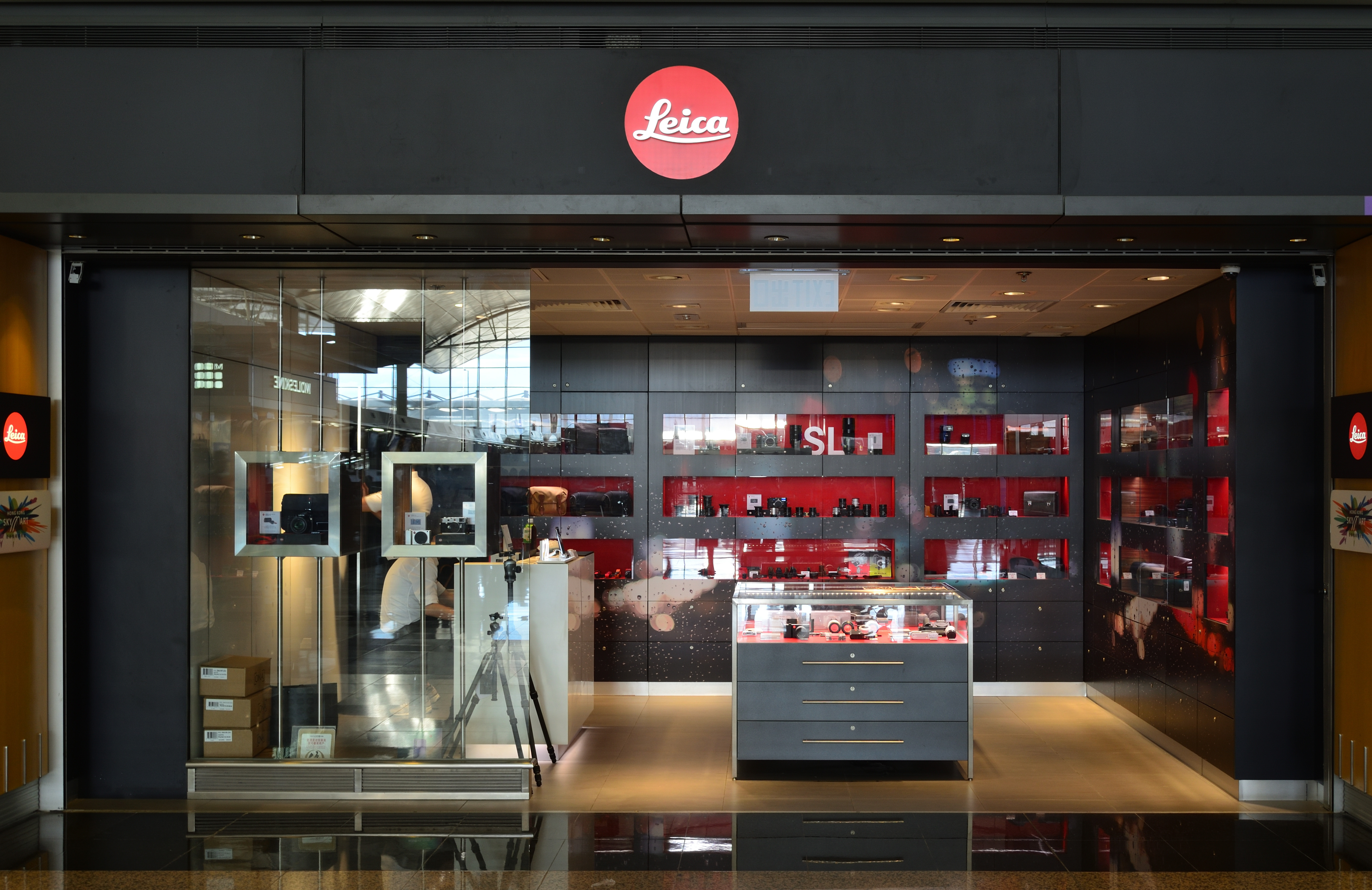 Leica Store at Hong Kong International Airport Terminal 1 Departures Level